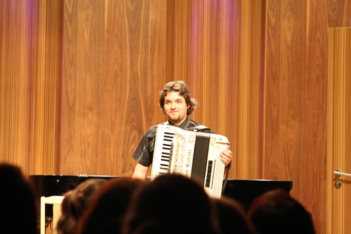 Pavel Samiec